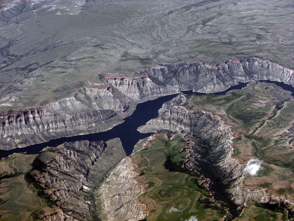 Photo of Bighorn Lake, Wyoming (and Montana), Southwestern portion, taken from an aircraft at approximately 40000 feet.